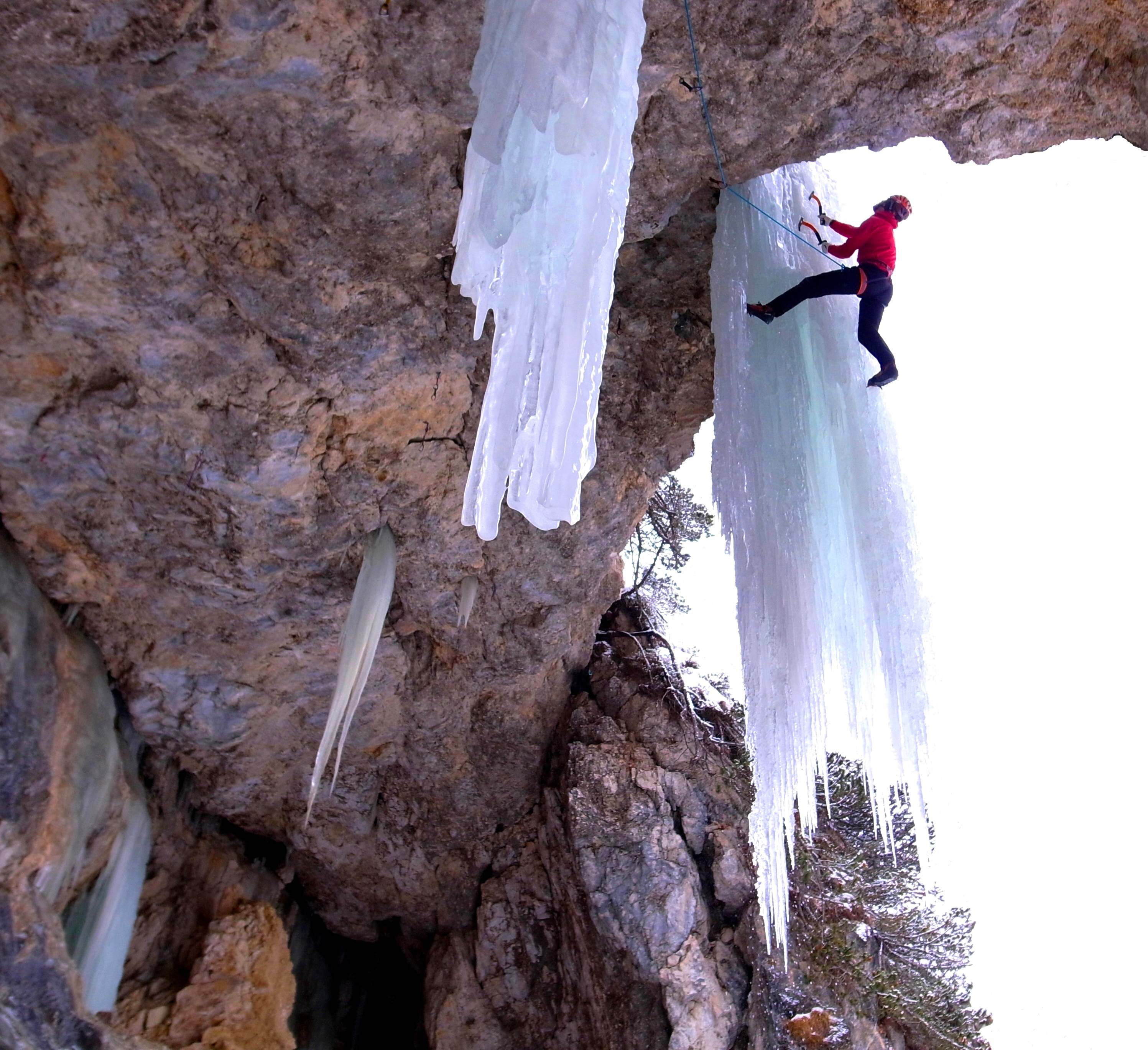 Kristoffer Szilas climbing a mixed route graded M9. Photo by: Ramon Marin.